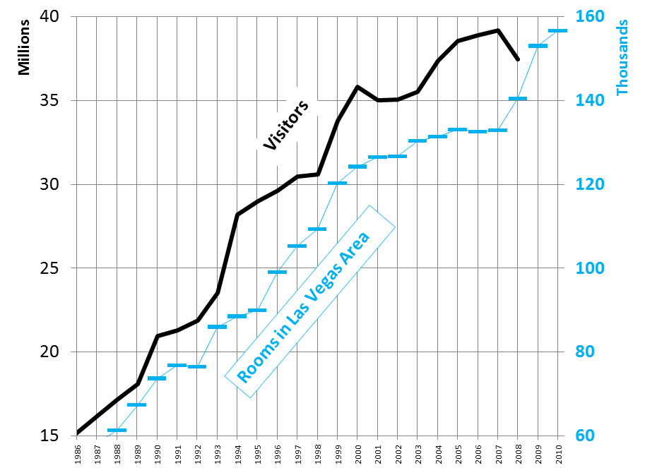 History of Visitors and Available Rooms